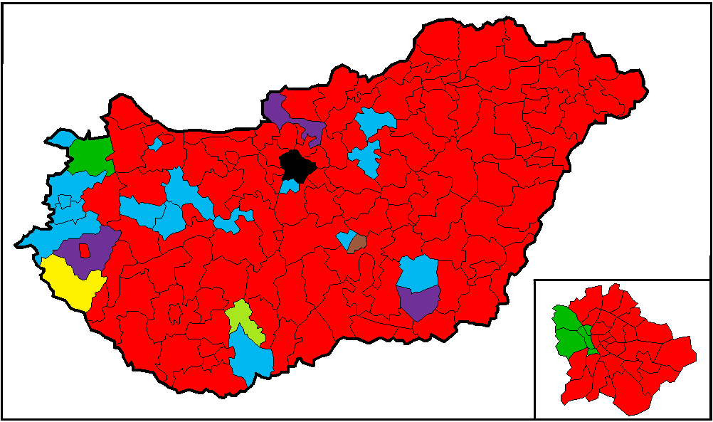 Results the 1994 hungarian elections ██ = Alliance of Free Democrats ██ = Hungarian Democratic Forum ██ = Hungarian Socialist Party ██ = Christian Democratic People's Party ██ = Agrárszövetség (Union for Agriculture) ██ = Independent Smallholders, Agrarian Workers and Civic Party ██ = Enterprisers Party